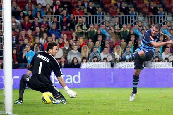 The photo is during a match.